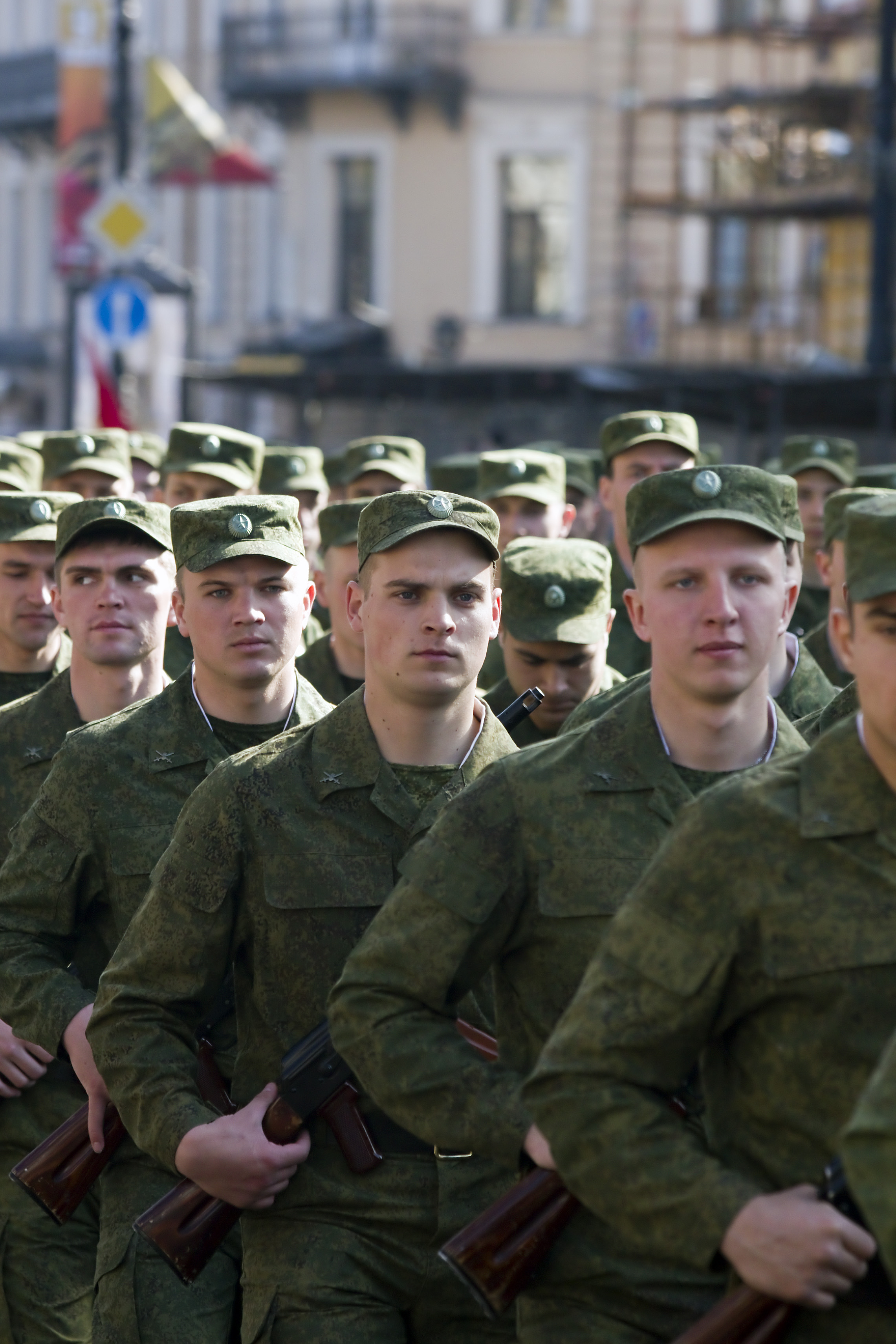 Russian soldiers in Saint Petersburg